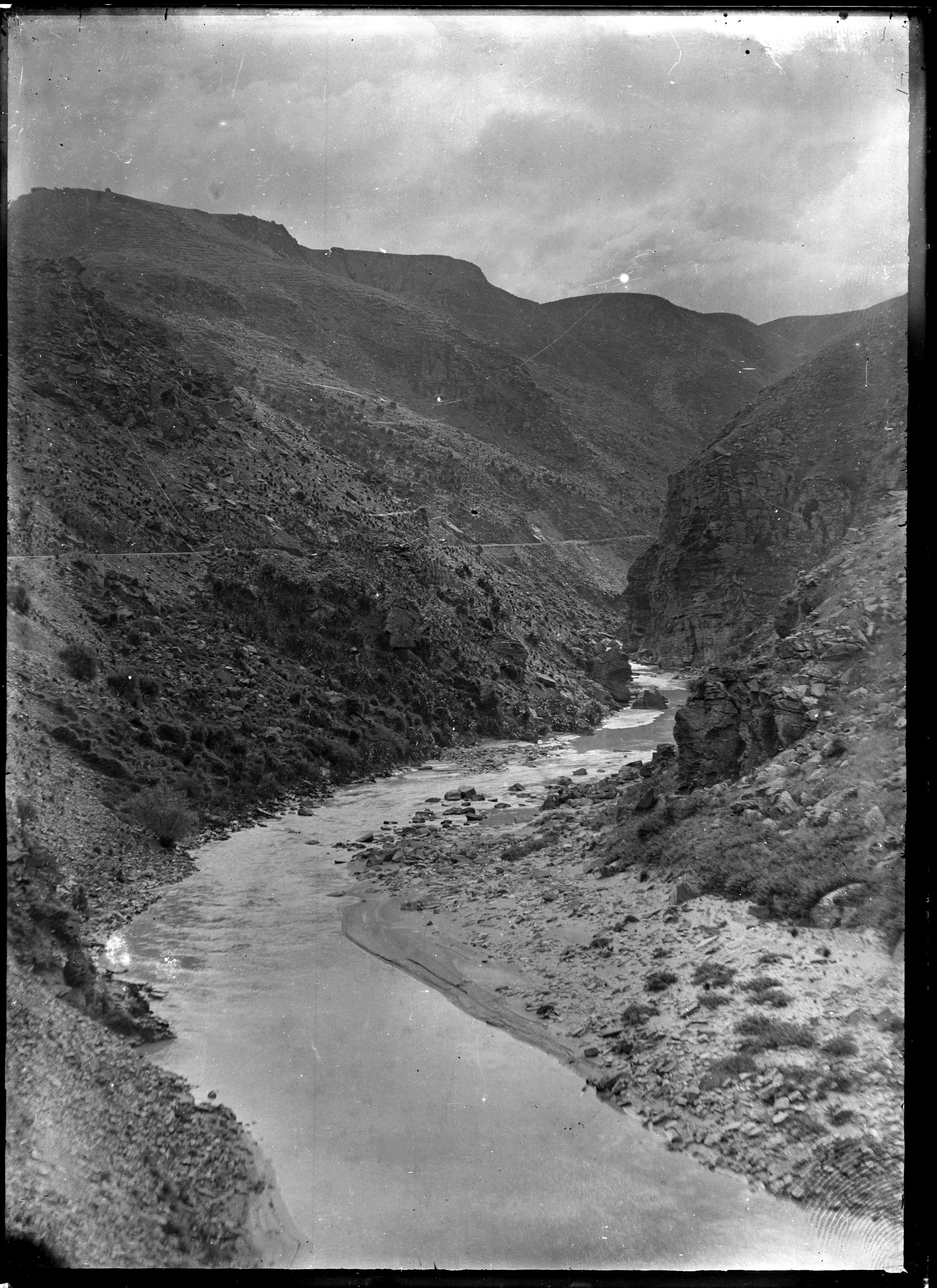 View of the railway line winding through hills above the Taieri River, near Dunedin. Photographed by Albert Percy Godber.